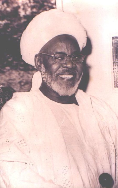 A picture of Barham niyass